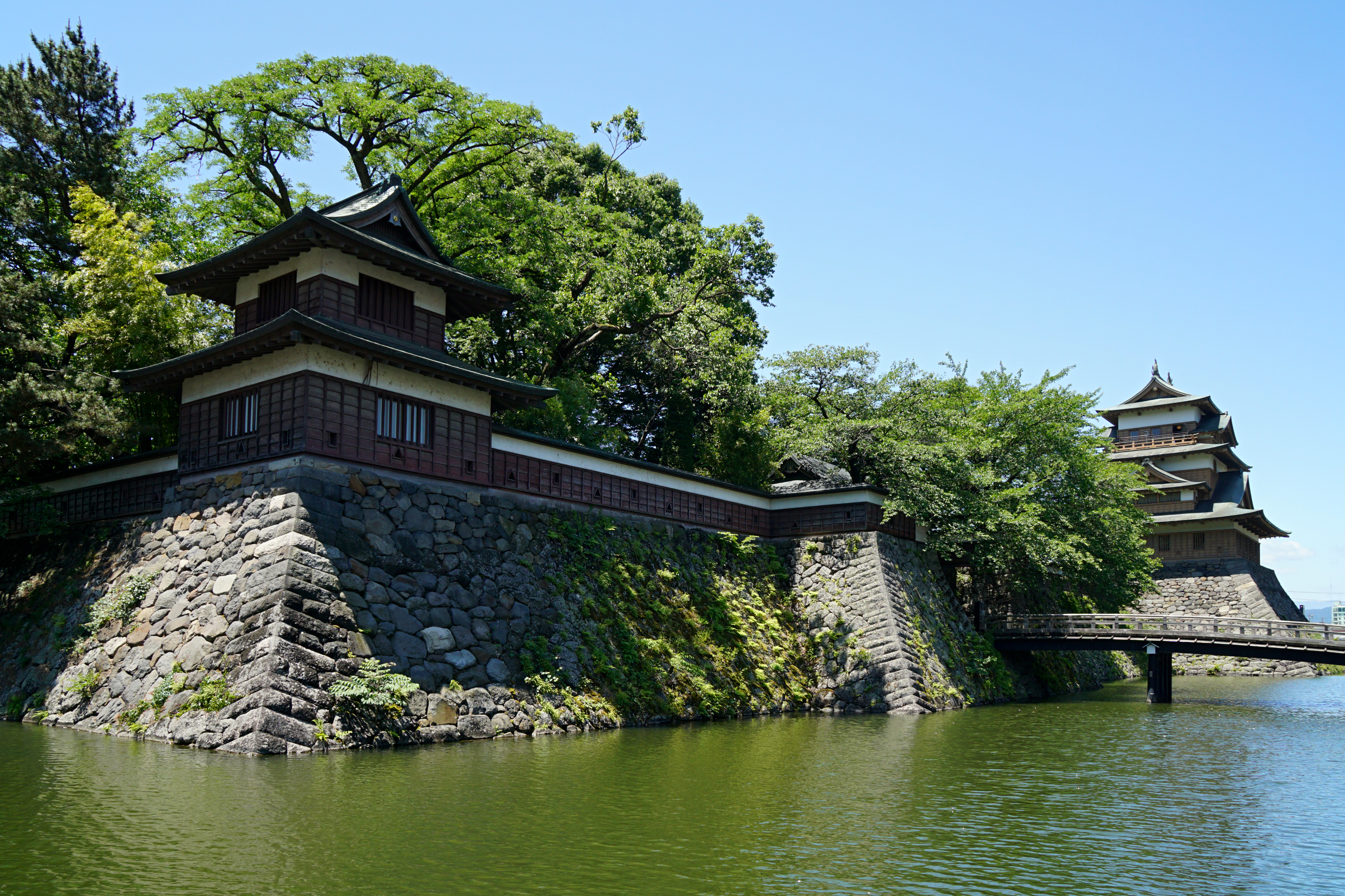 Takashima Castle in Suwa, Nagano prefecture, Japan.